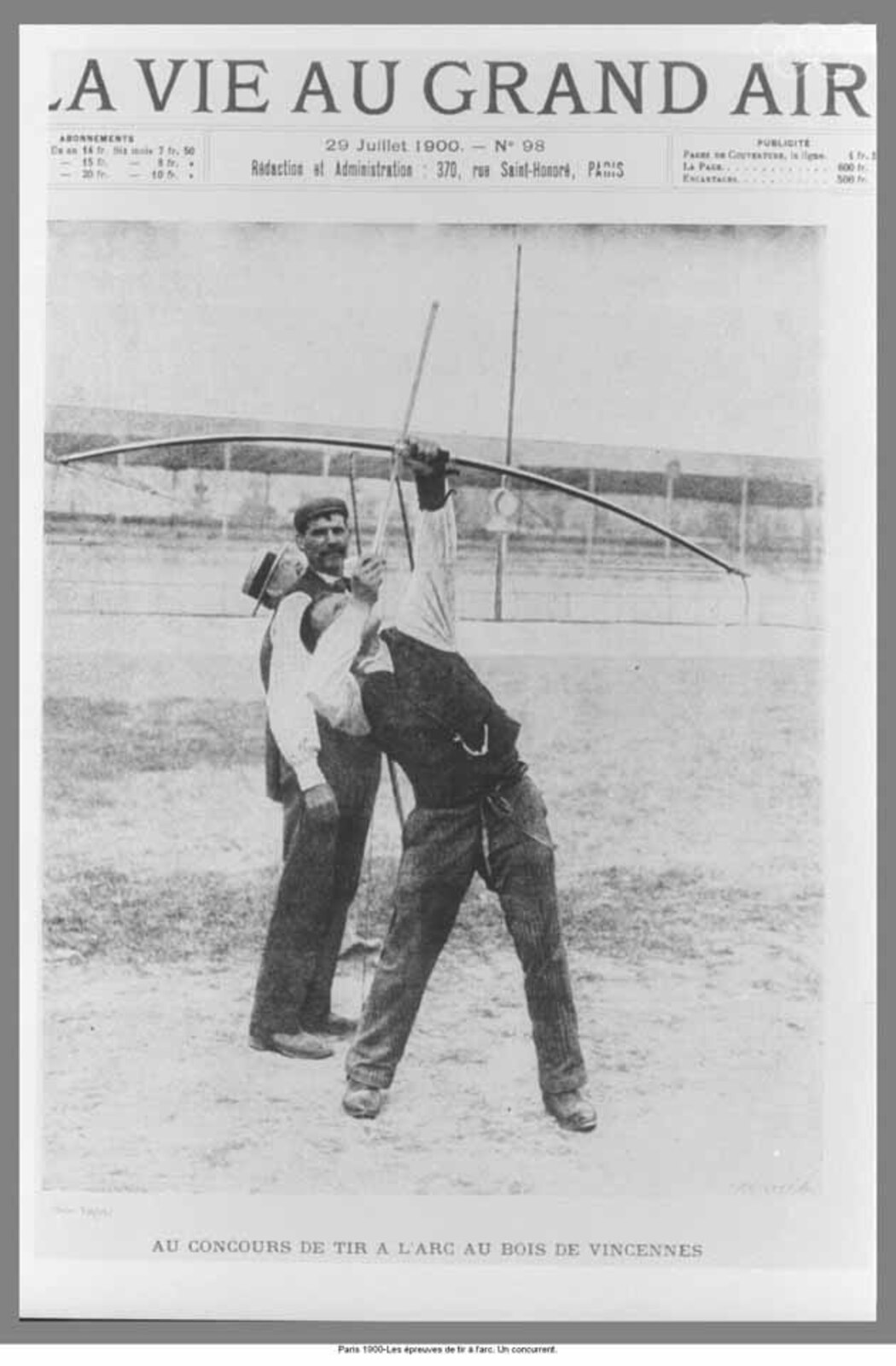 Paris 1900-Archery - a competitor on the cover of magazine A Vie Au Grand Air